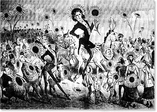 Cartoon depicting Oscar Wilde's 1882 visit to San Francisco.